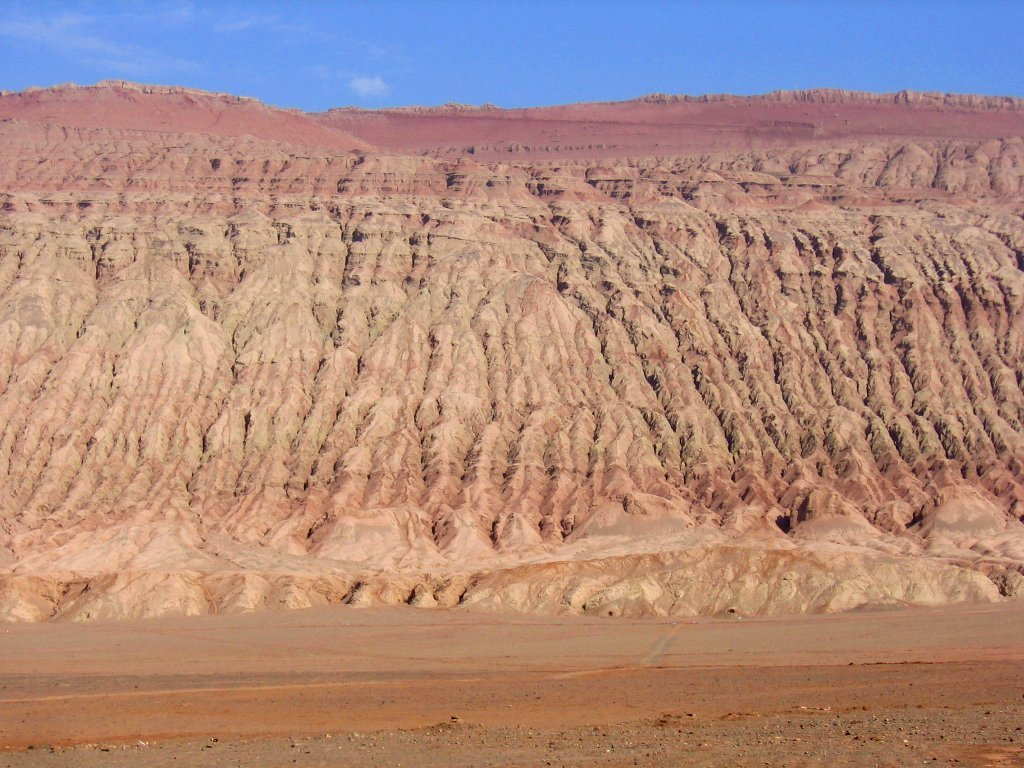 Flaming mountains are near Turfan. Close to Bezeklik caves. Are mountains with a "supposed" appearance of fire flames due to his shape and colours. There is also an ancien chinese roman, "The journey to the West" based in life of buddhist monk Xuan Zang (XVI century), that tells an story about a monkey that helps monk to pass the "Inferno flaming mountains" with a palm-tree fan given by Iron Fan Princess that extiguised the fire. Close to the mountains there is a touristic museum with representations of legend scenes, statues and paintings.